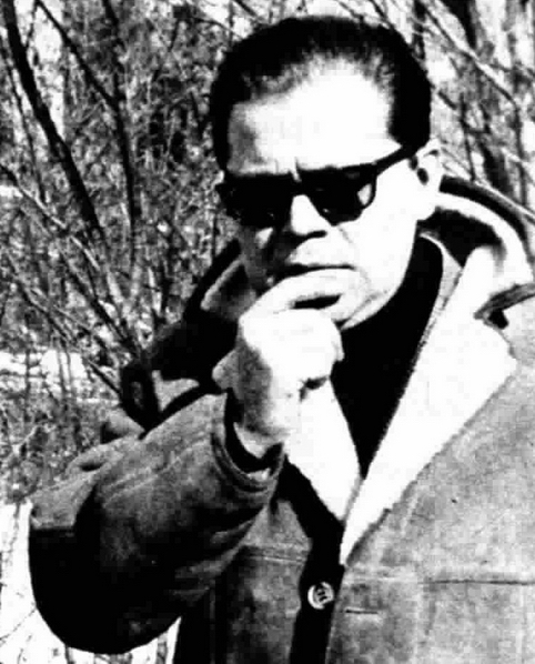 Italian journalist and director Libero Bizzarri in Torriglia